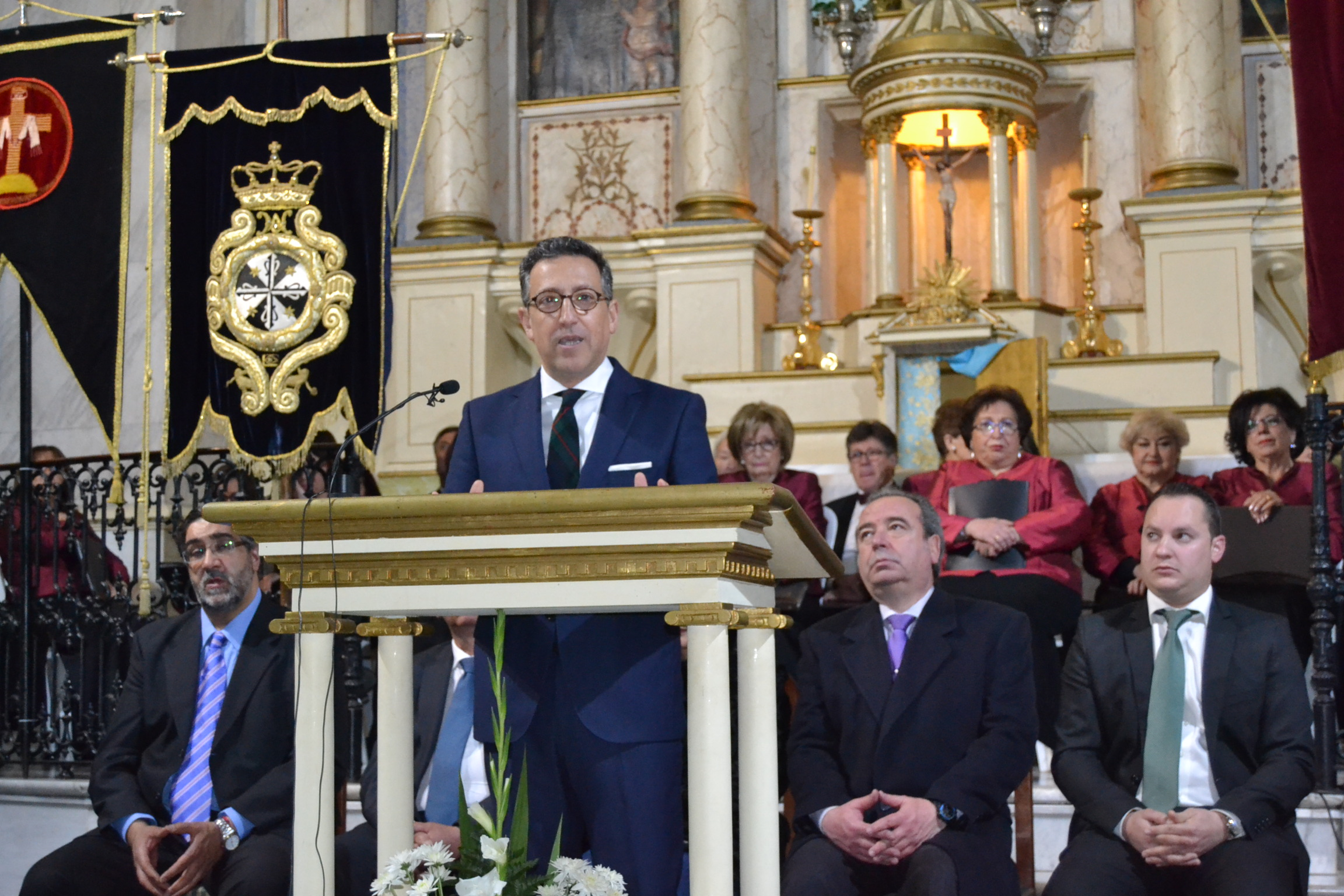 A moment of the speech (Pregón de Semana Santa 2018)